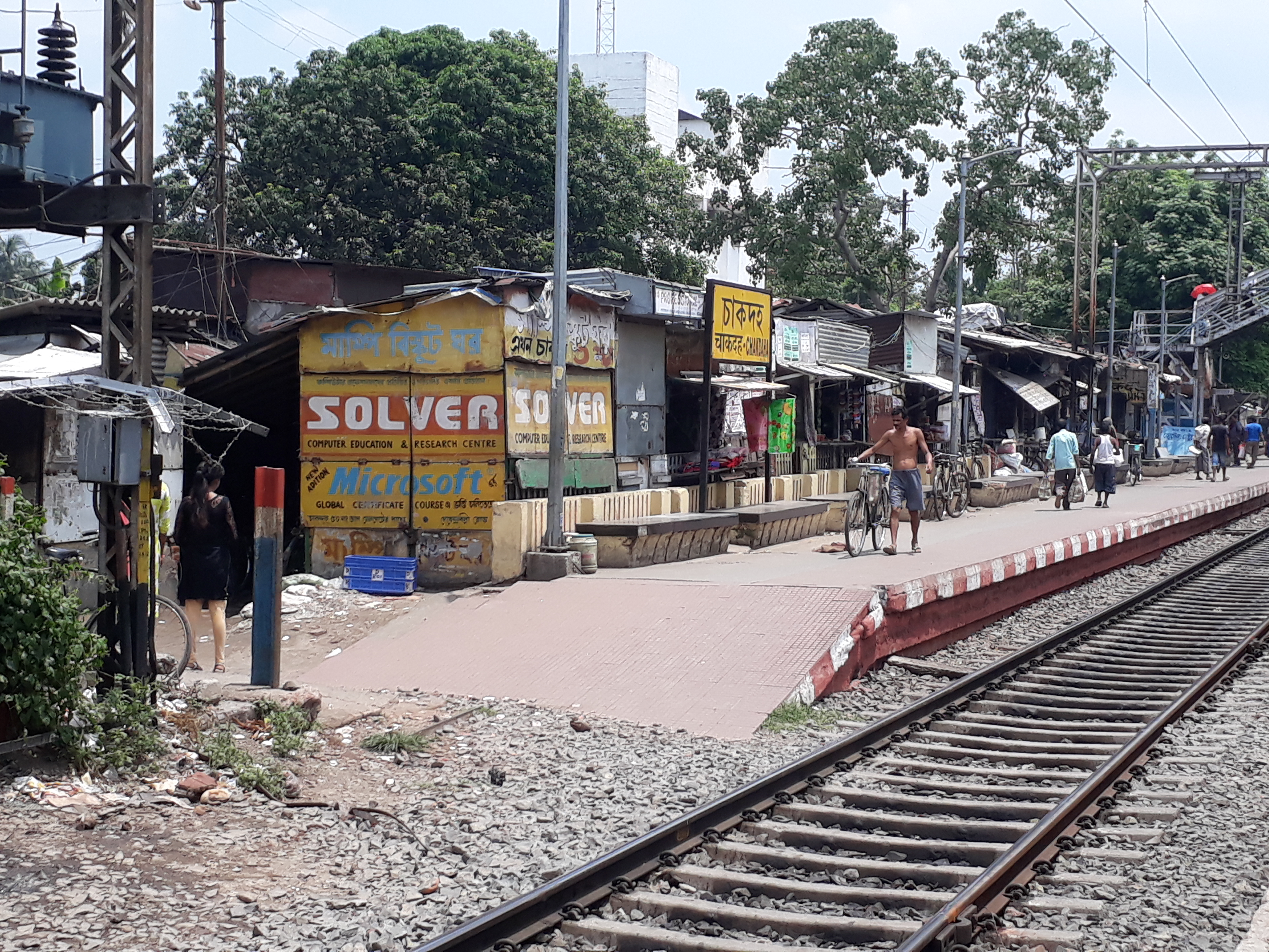 Chakda or Chakdah railway station on Sealdah - Ranaghat main line in Nadia district, West Bengal